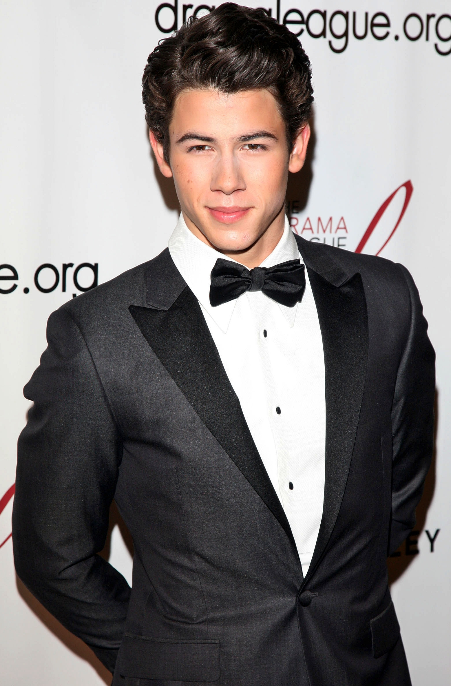 Nick Jonas at the 2012 Drama League Benefit Gala.